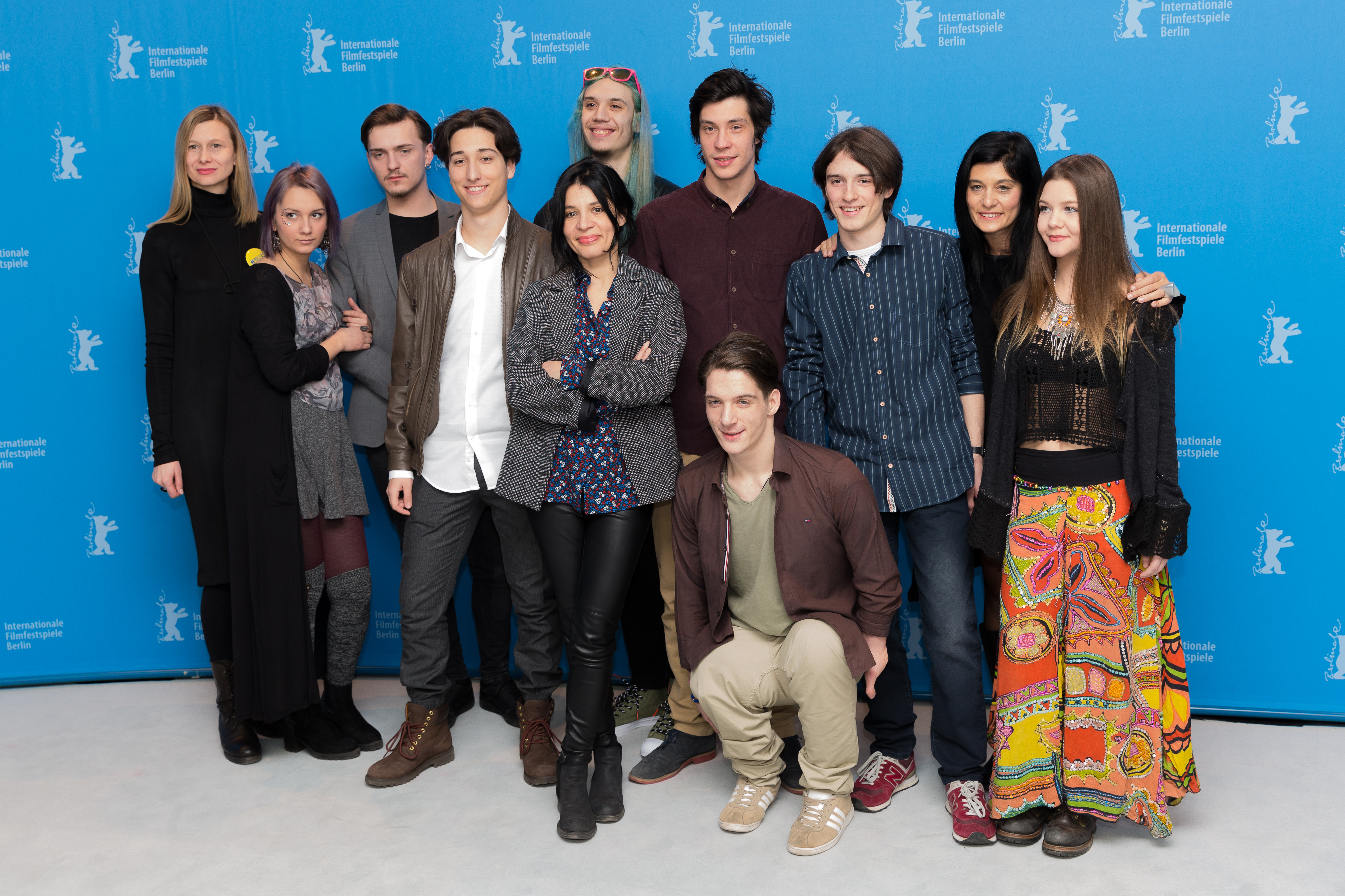 The film team at the presentation of macedonian When the day had no name at the Berlinale 2017